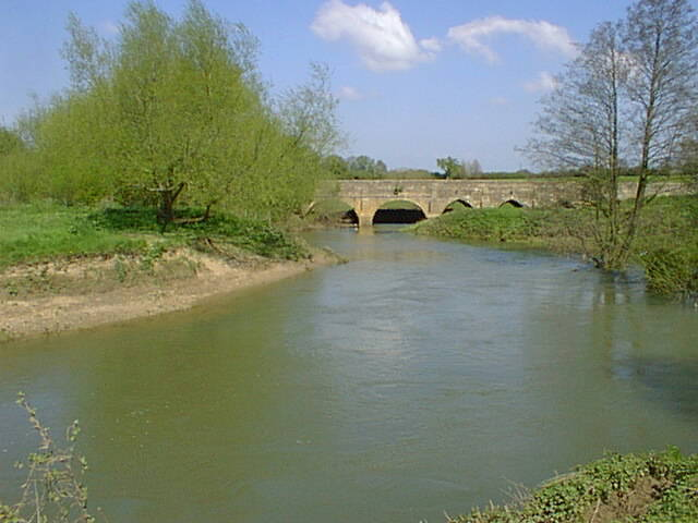 bridge over River Avon, Lacock.